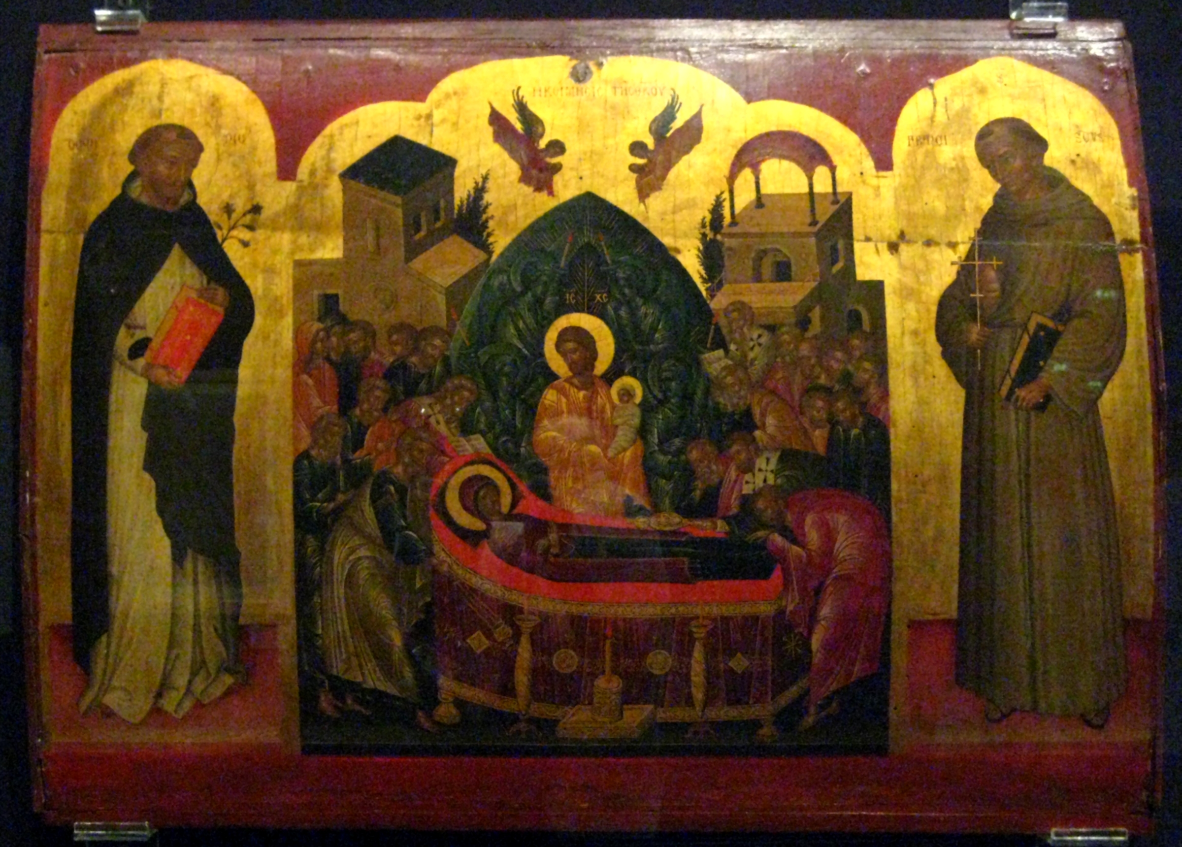 School of Andreas Ritzos. The Dormition of the Virgin with ss. Dominic and Francis. Late 15 c. Pushkin state museum